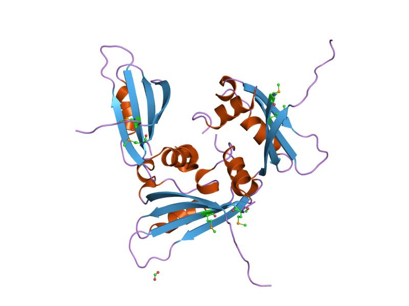 Cartoon representation of the molecular structure of protein registered with 1tz0 code.